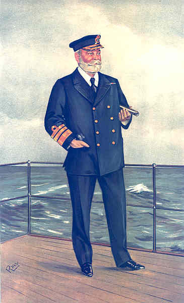 Caricature of Vice-Admiral Sir Frederic William Fisher KCVO. Caption read "Uncle Bill".